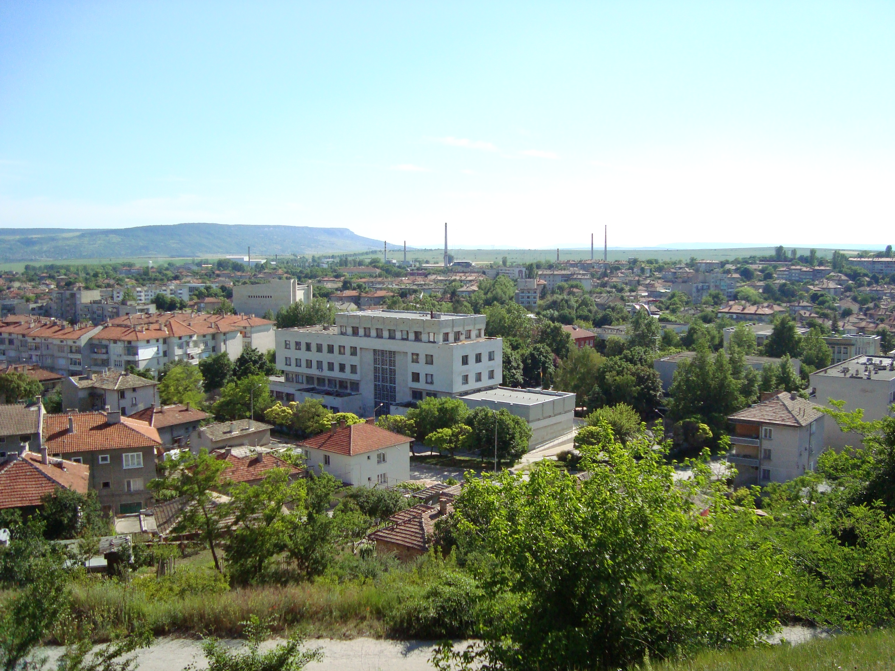 View at the town of Novi Pazar, Bulgaria